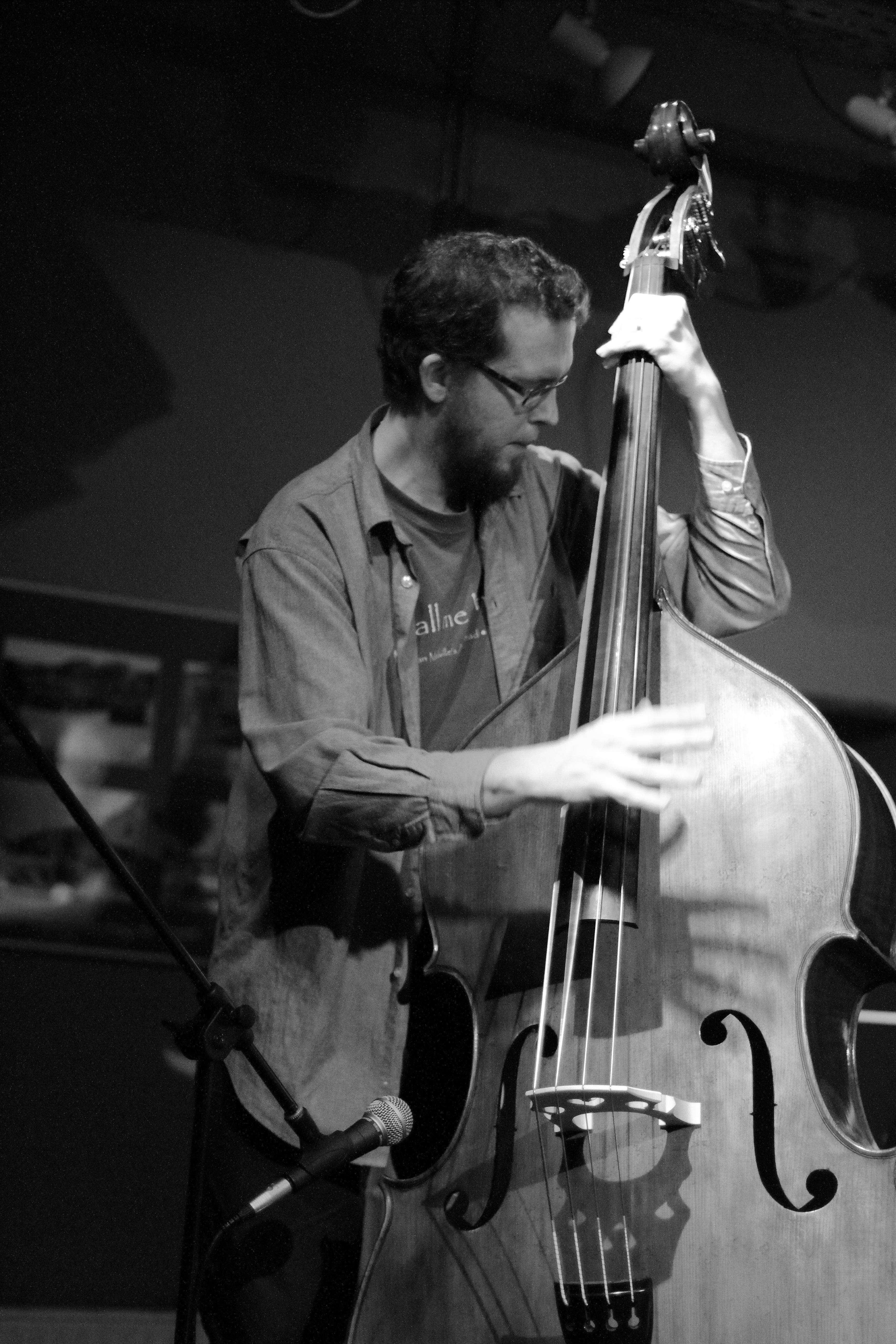 Stefan Keune (sax), Dominic Lash (db) & Steve Noble (dr) in concert at Club W71.